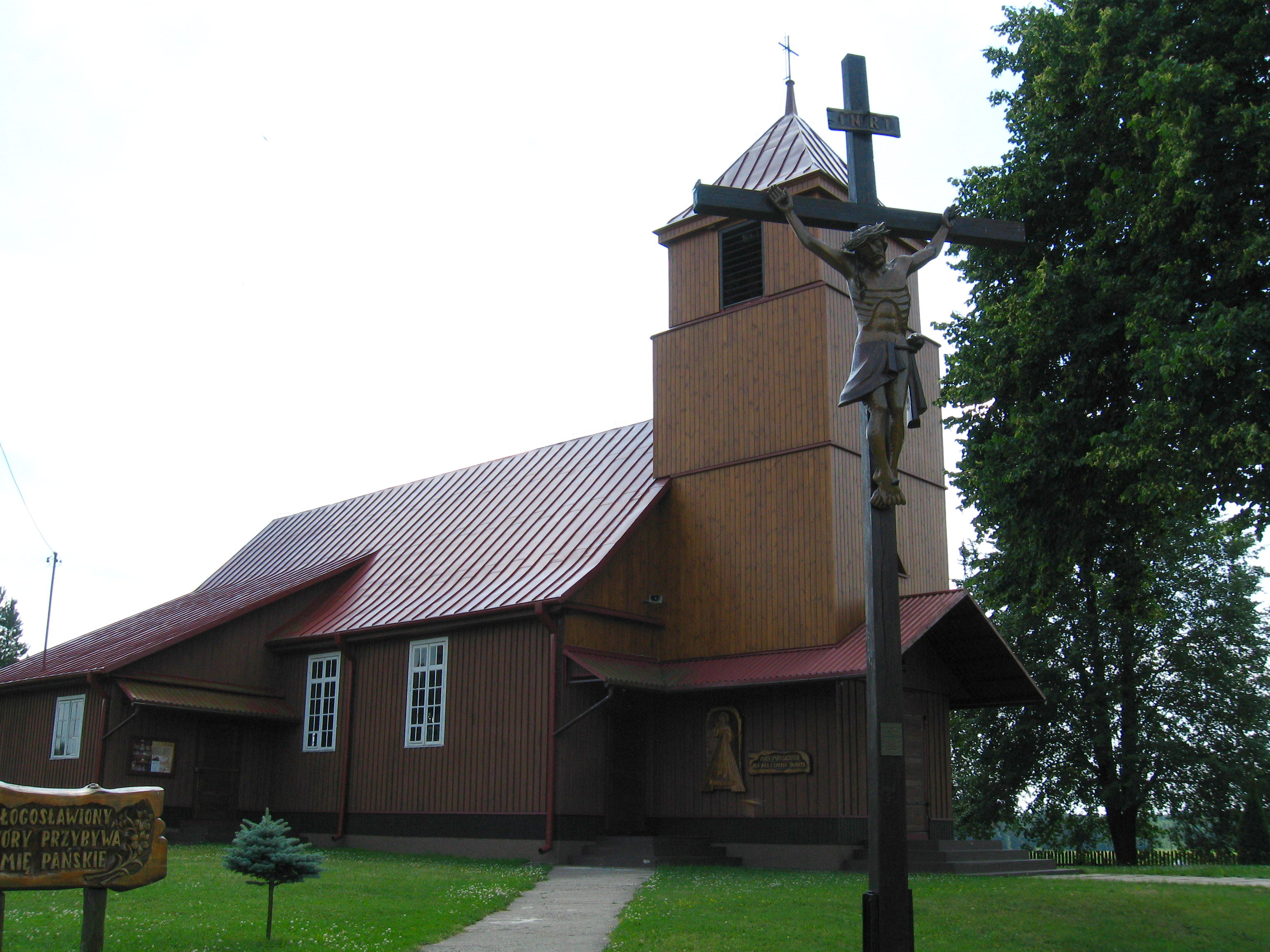 Roman–catholic parish church of Holy Virgin Mary the Queen of Poland at Kopisk